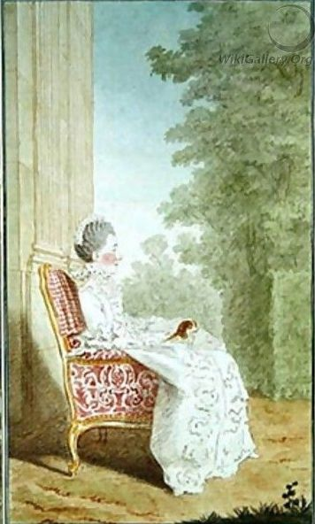 Marie Christine de Rouvroy (1728-1774), Princess Charles Maurice of Monaco, "Countess of Valentinois" by Carmontelle